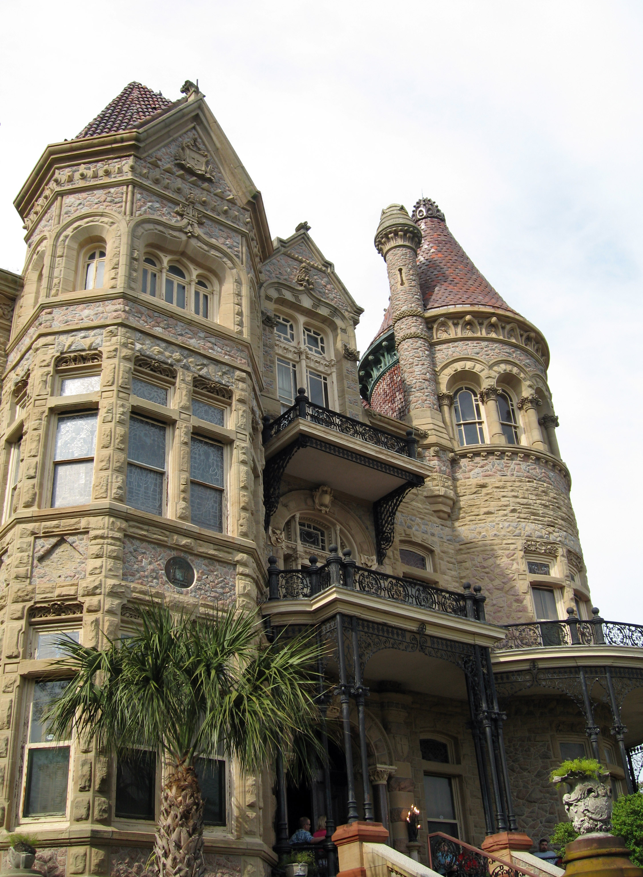 Bishop's Palace on Broadway and 14th St. in Galveston, Texas.